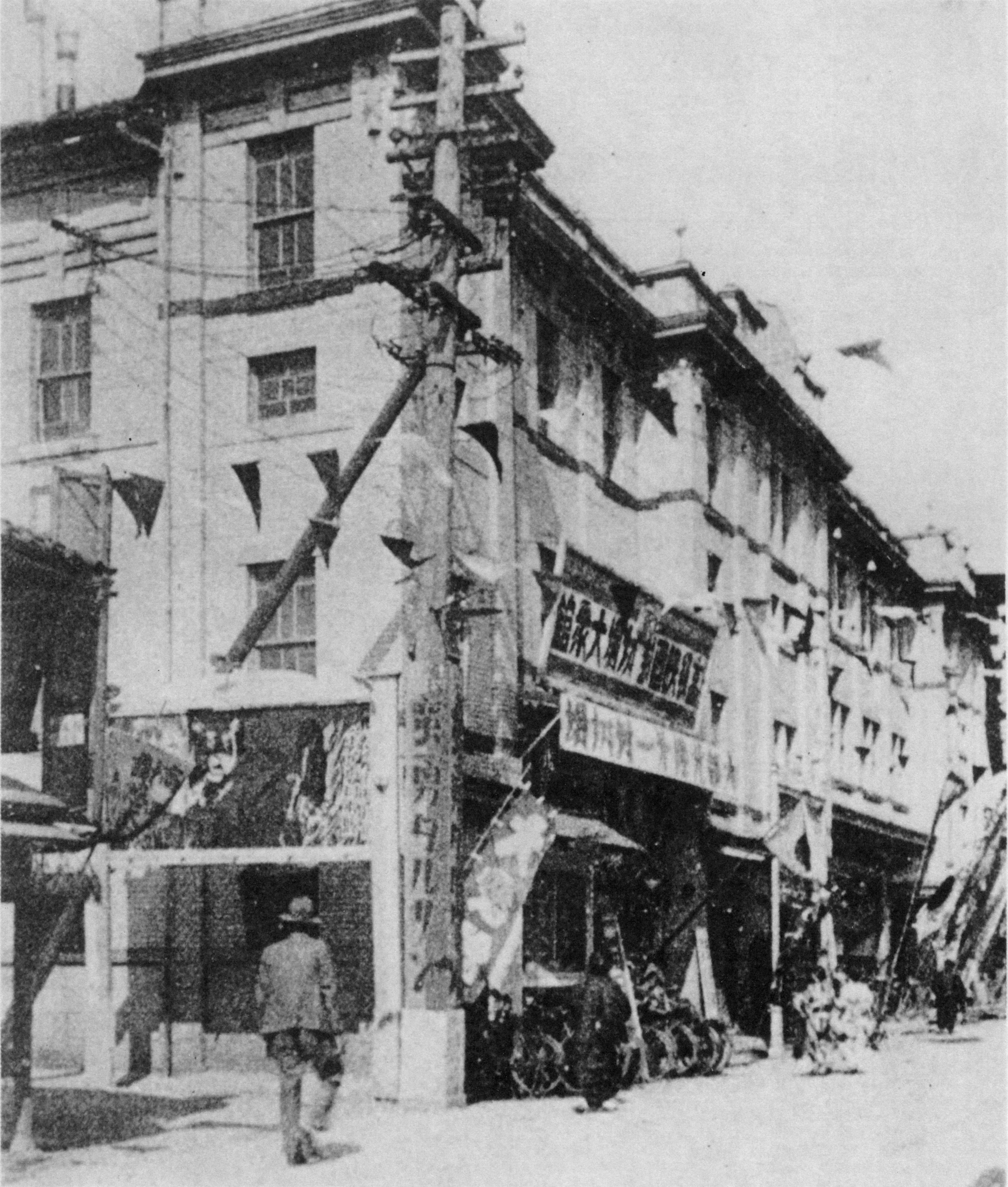 Movie theater "Taishukan" Fukui, Japan